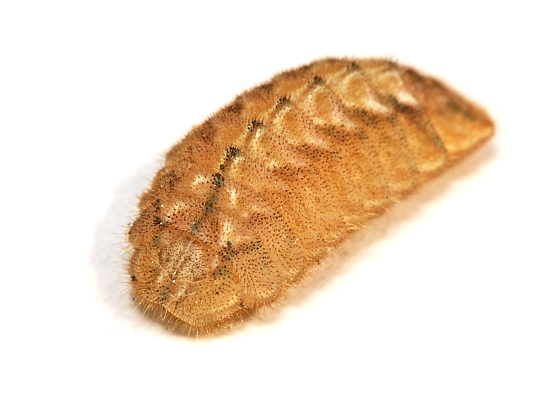 caterpillar of Quercusia quercus from a forest near Ratingen, Germany.